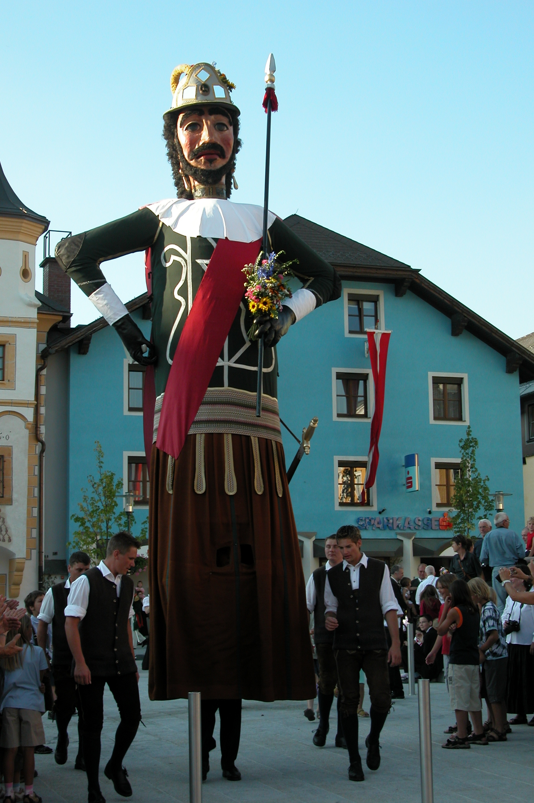 Giant Samson from Tamsweg